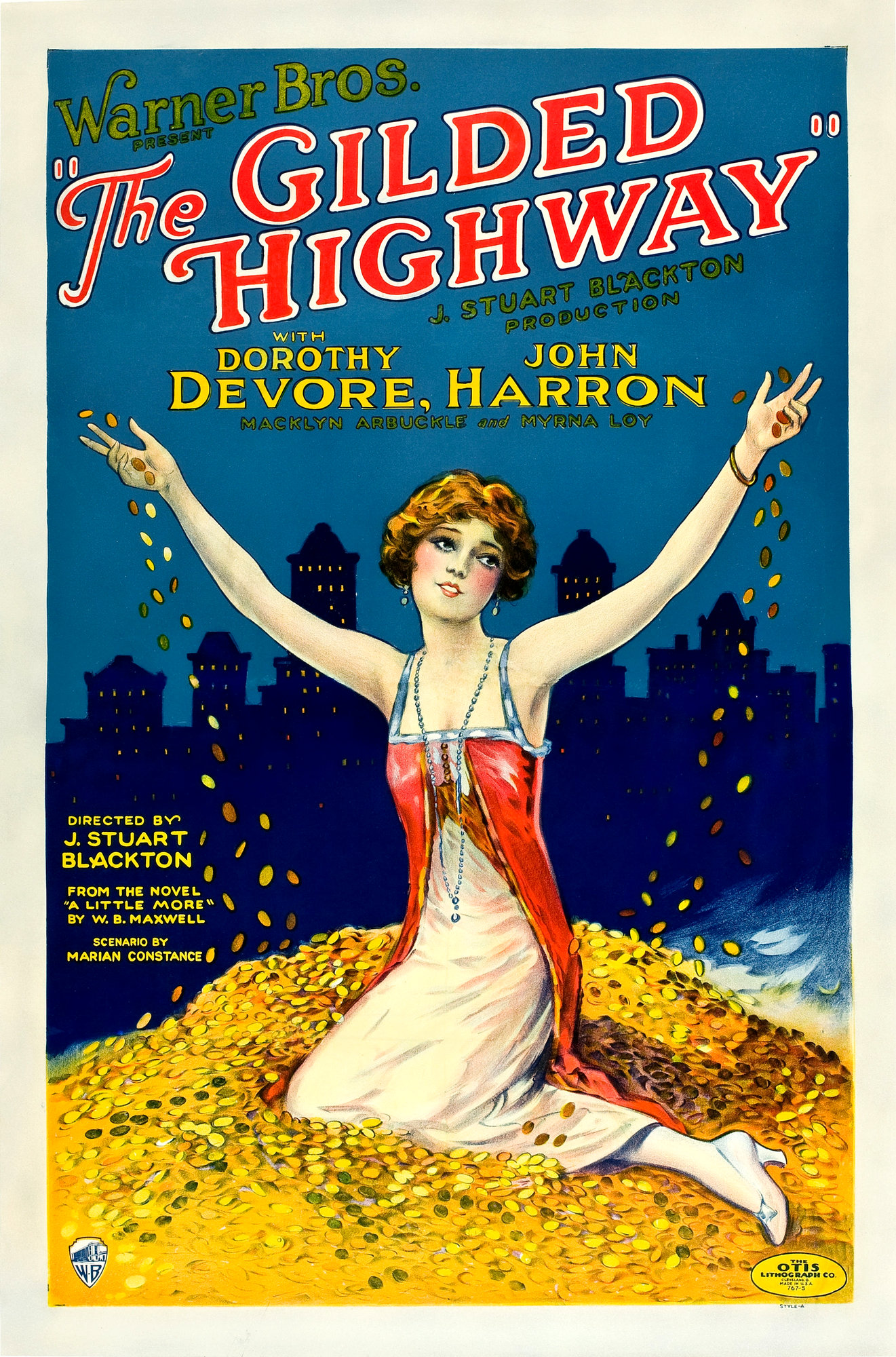 Poster for the 1926 film The Gilded Highway. There are no copyright marks on the item. At bottom left is the Warner Bros logo. At bottom right is the Otis Lithograph Company logo--they printed the poster-and "Style-A".